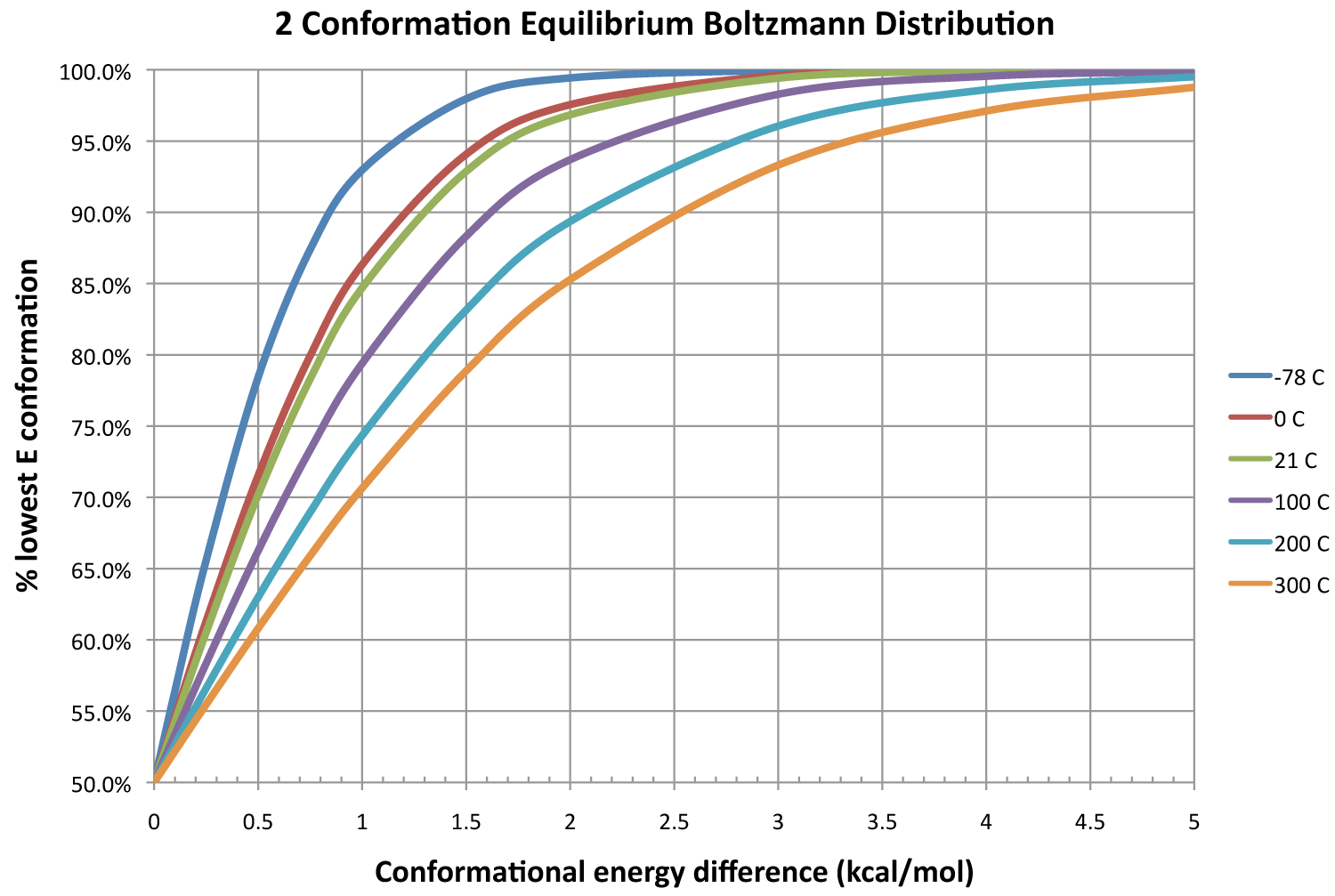 Boltzmann distribution obtained from 2 conformers with relative energy differences along x-axis at various temperatures according to the legend in degrees C